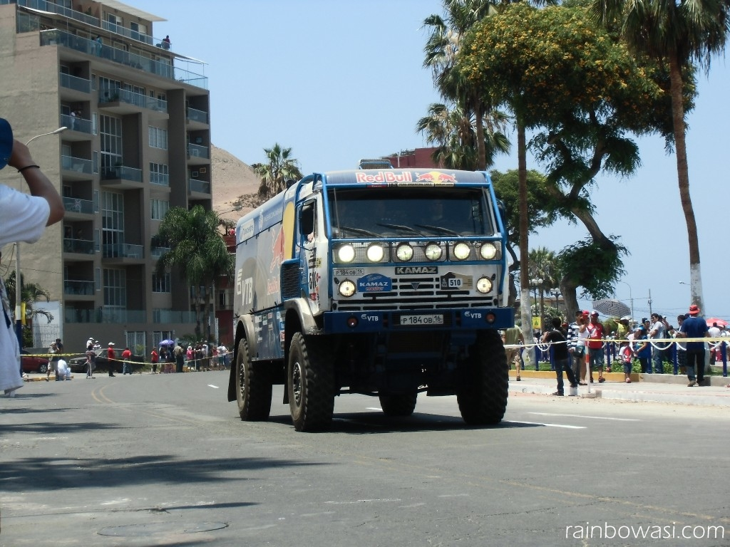 Andrey Karginov and his crew with KamAZ truck during first stage of 2013 Dakar Rally